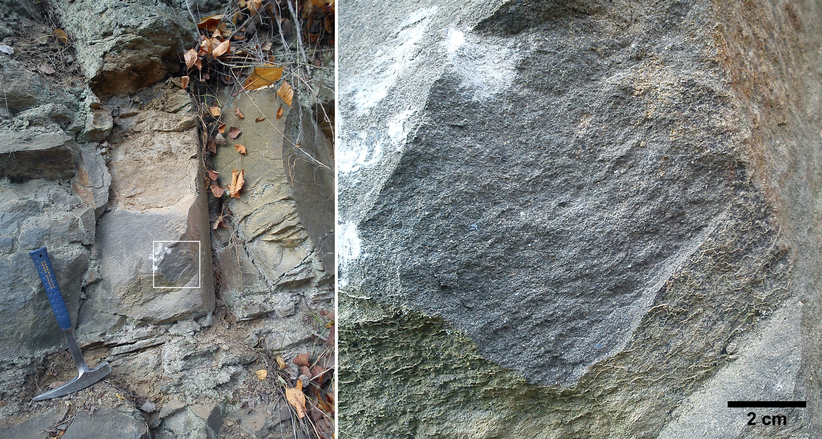 Thickly bedded, heavily jointed Lower Carboniferous greywacke, intercalated by thinner mudstone layers (see, e.g., head of hammer in the left image), of the Moravo-Silesian Paleozoic, eastern Bohemian Massif, southern (abandoned) quarry of the Výkleky quarries, Olomouc region, eastern Czech Republic. The right image is a detail of the left image (marked by the white box therein) and shows a fresh surface (the white spots in the upper left are the corresponding hammer markings).